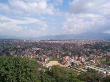 Taken from Swayabonath, the Monkey Temple, in Kathmandu.